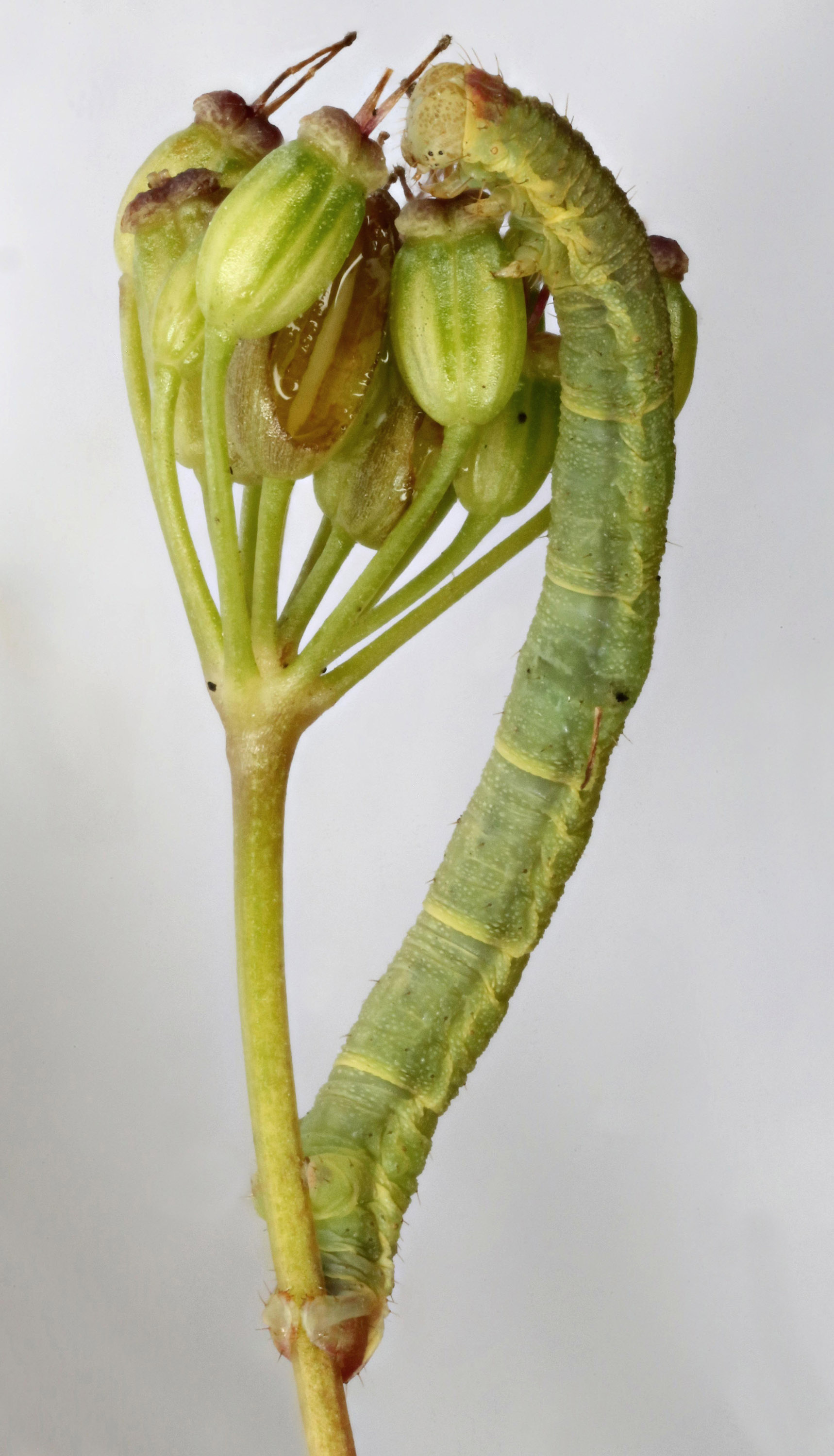 Eupithecia pimpinellata, Pimpinel Pug, Cors Goch, North Wales, Sept 2016 (1)